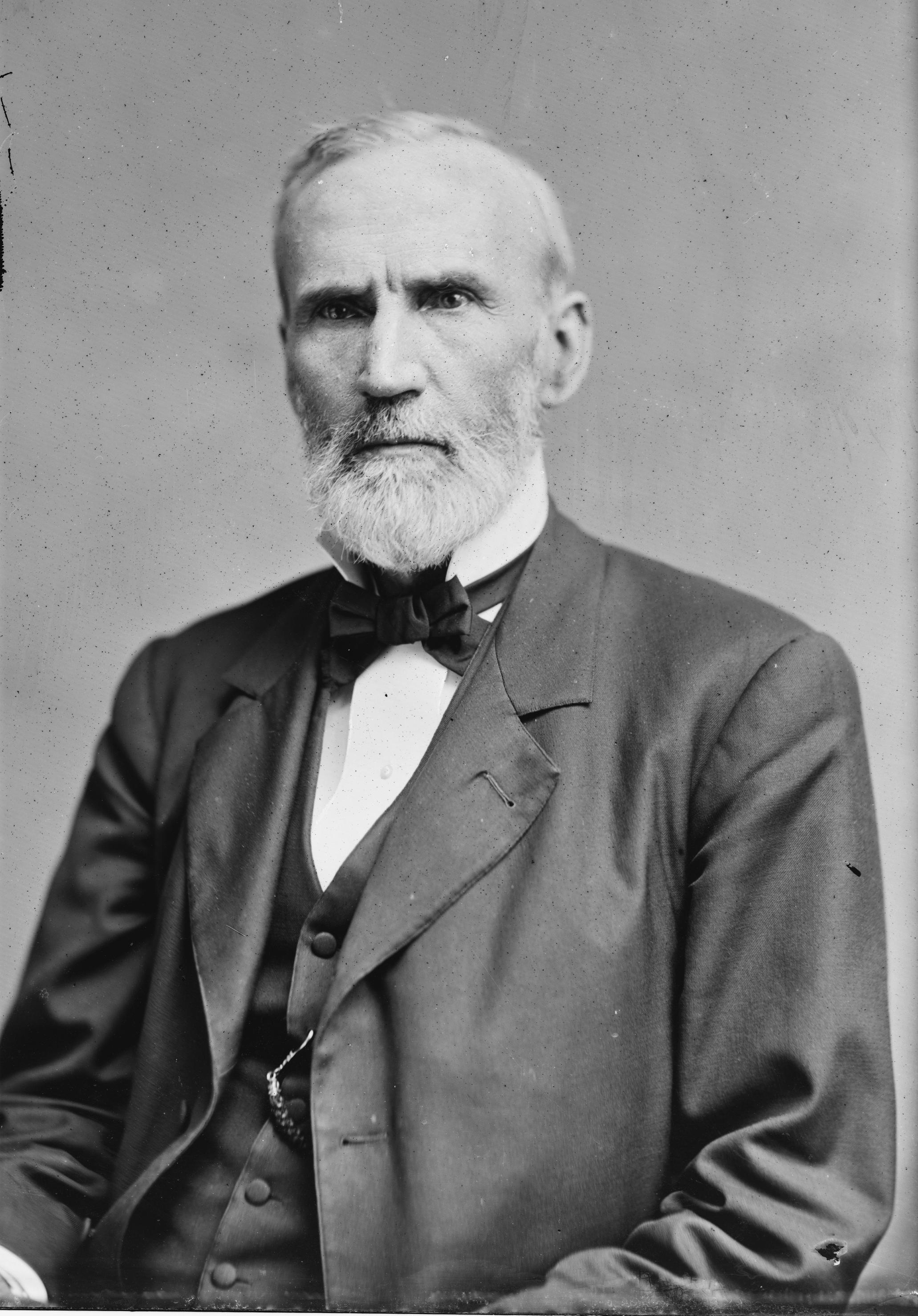 George Washington Julian. Library of Congress description: "Julian, Hon. Geo. Washington of Indiana".